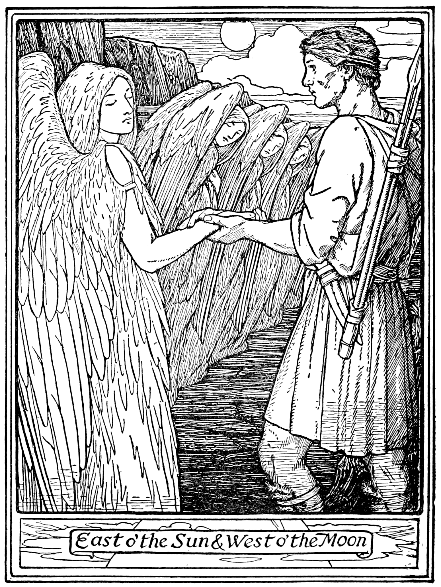 Illustration from a book of fairy tales from Europe, translated into english